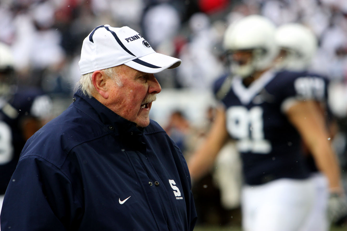 Penn State Offensive Coordinator Galen Hall on the sidelines in 2008. #91 Jared Odrick is in the background.